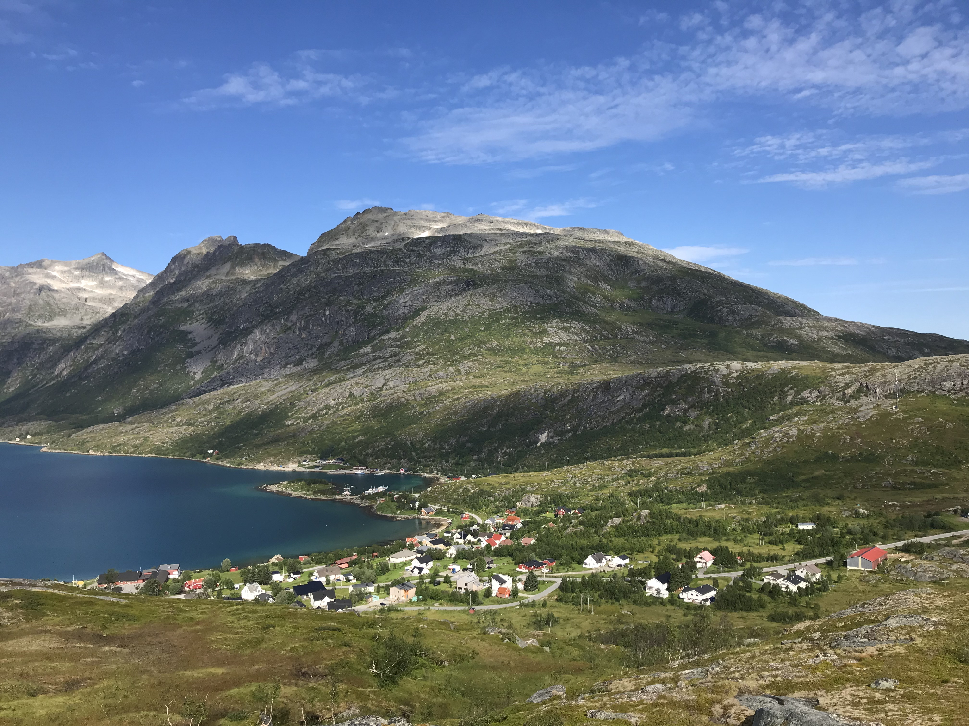 Ersfjordbotn is a village at the end of the Ersfjorden on the island of Kvaløya in the municipality of Tromsø in Troms county, Norway.